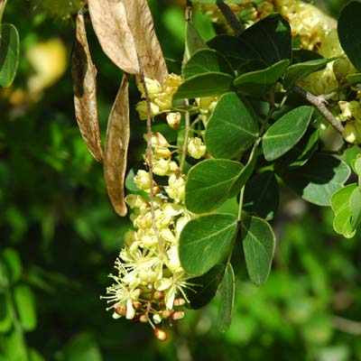 flower of Haematoxylum campechianum